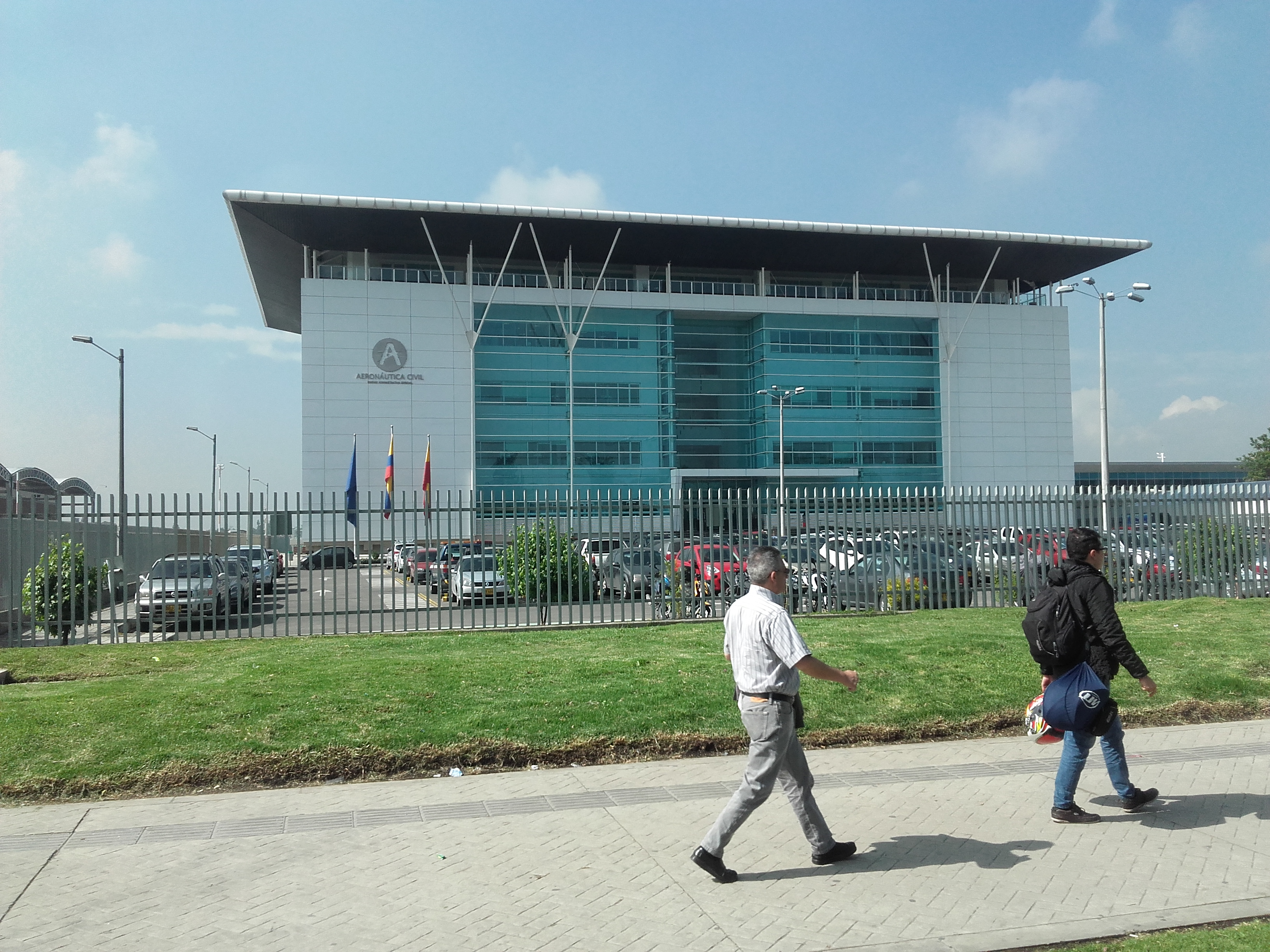 Headquarters of Aerocivil (Special Administrative Unit of Civil Aeronautics), El Dorado International Airport